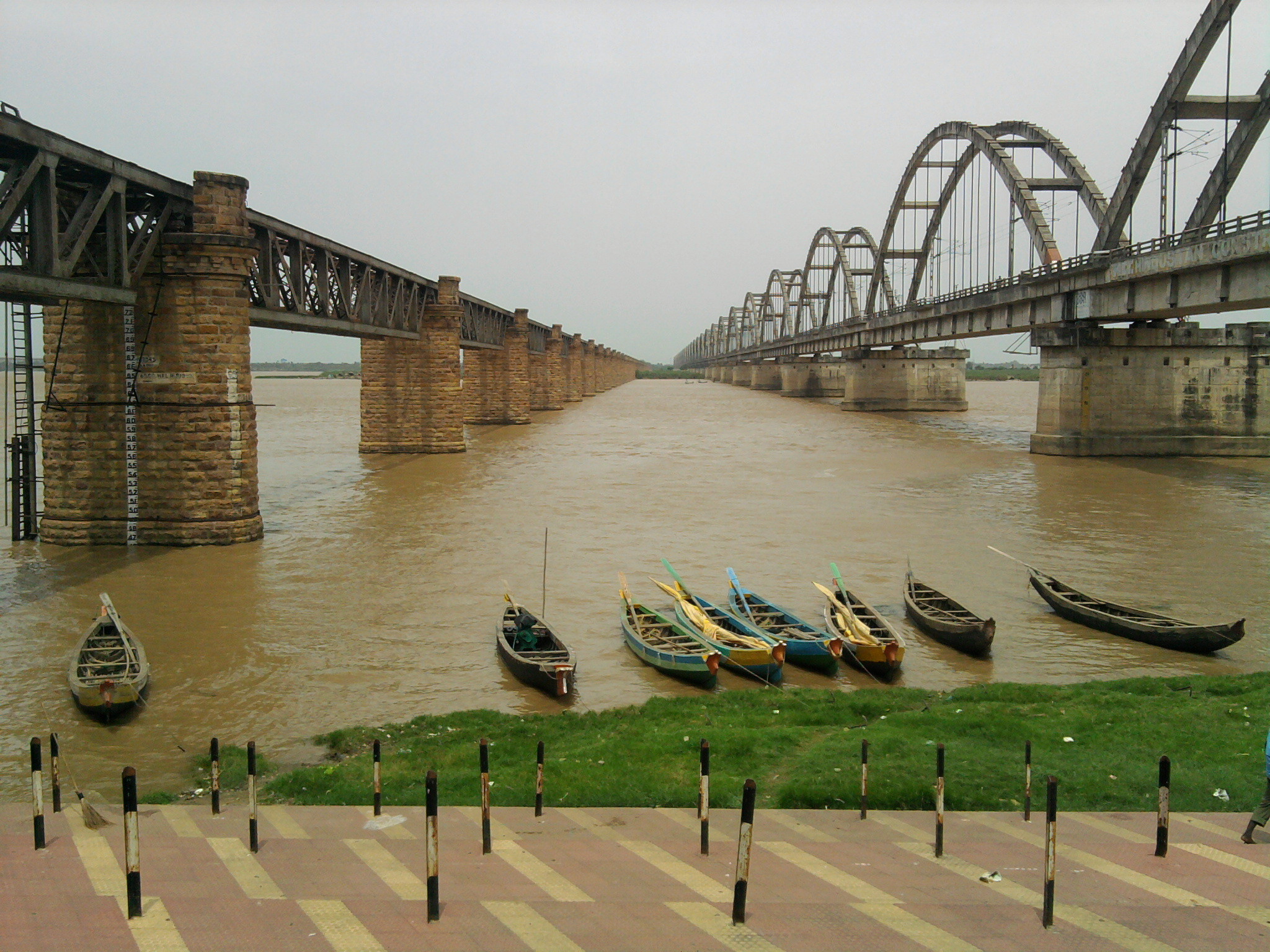 Godavari Bridge Image taken using Ramesh Ramaiah's Samsung camera.